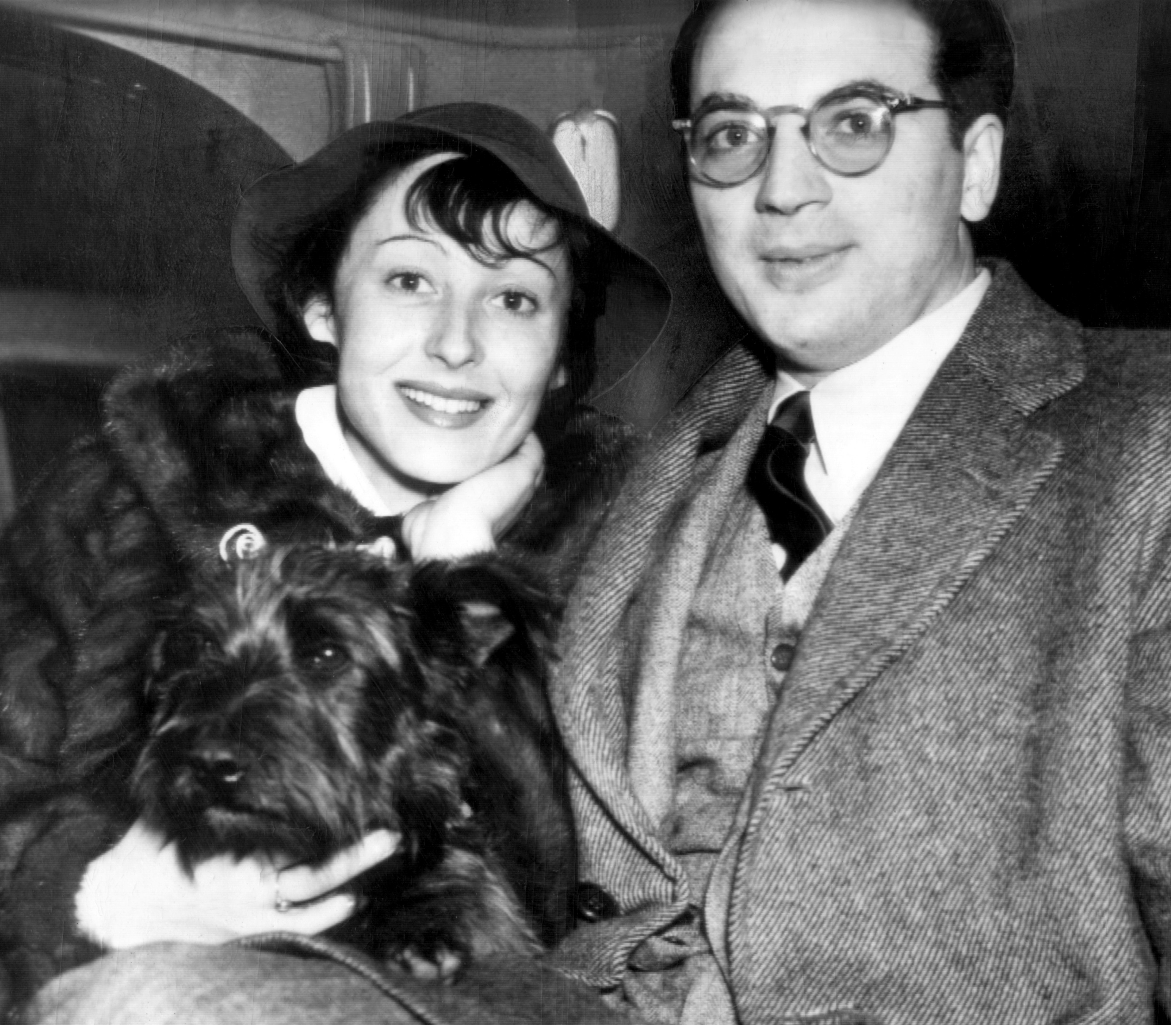 Photograph of Luise Rainer and Clifford Odets Caption reads as follows: LOS ANGELES, JAN. 4. -- FILM ACTRESS TO WED SCREEN WRITER -- Luise Rainer, Viennese screen actress, and Clifford Odets, film writer, are shown here today just after they had filed notice of intention to wed. Miss Rainer gave her age as 25 and Odets said he was 30.